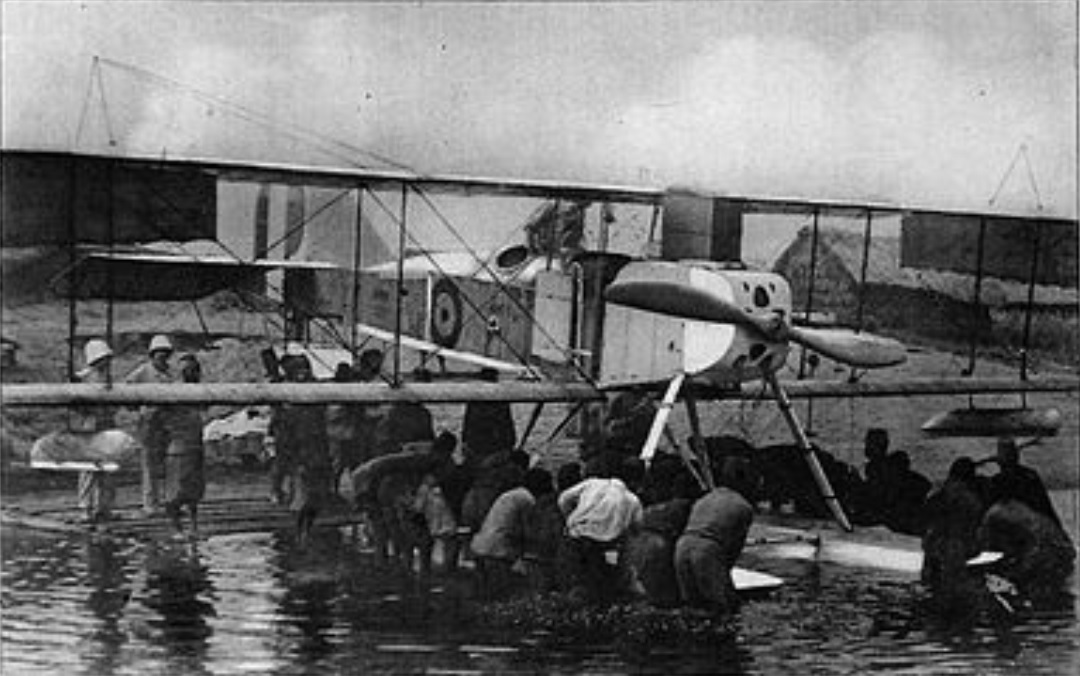 Waterairplanes on lake Tanganyika during the East African Campaign, First World war, at M'Toa (DRC), c. 1916.